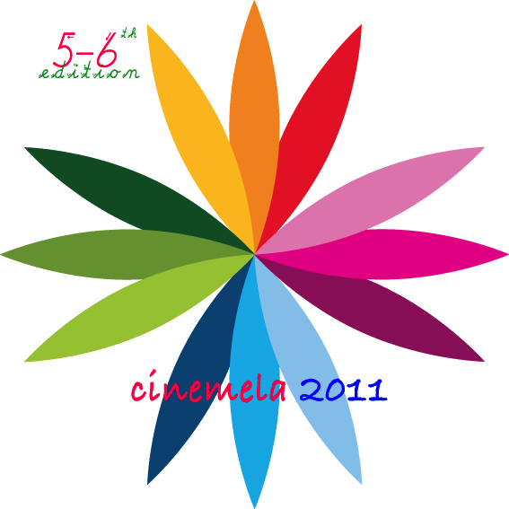 The logo of Cinemela Film Festival 2011